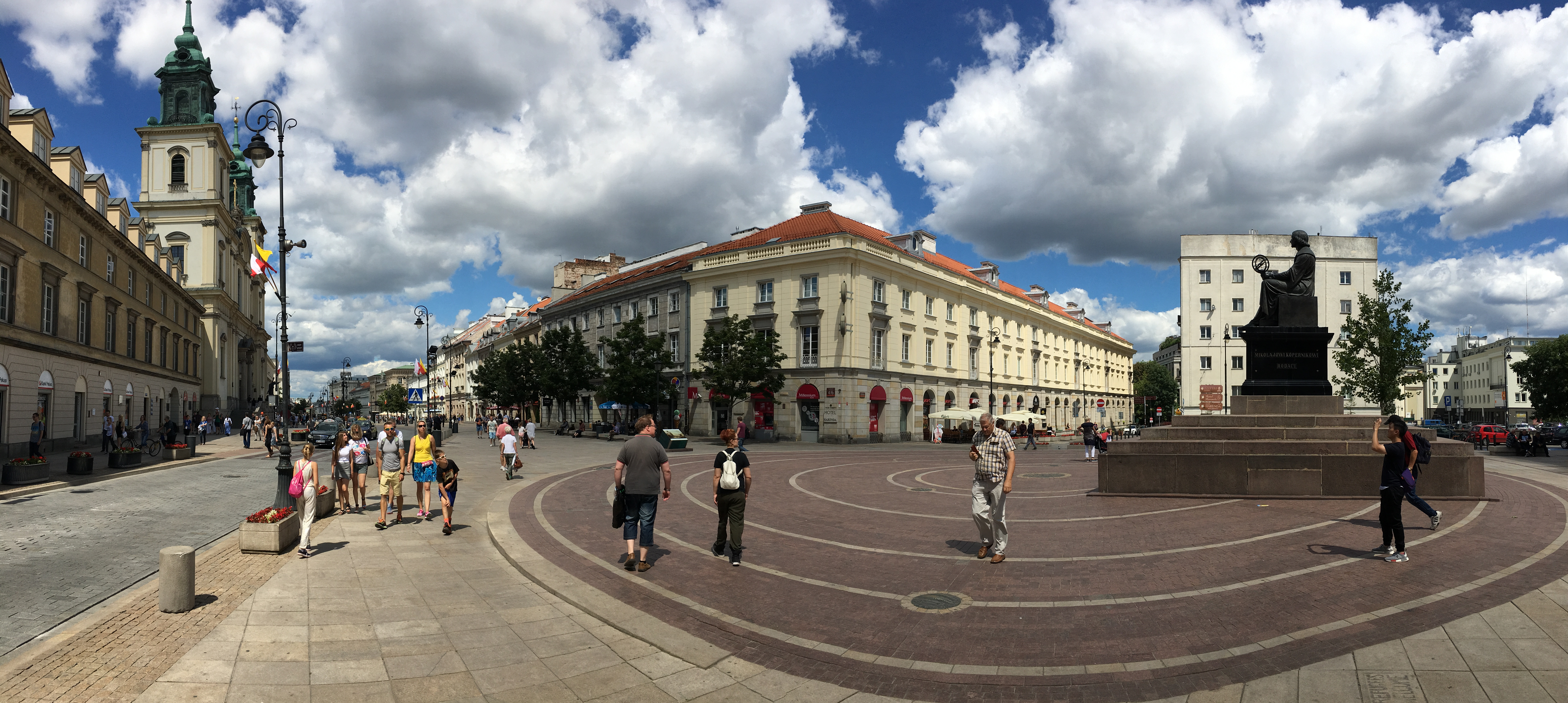 Panoramic view of the southern end of Krakowskie Przedmieście street in Warsaw, Poland (2016)